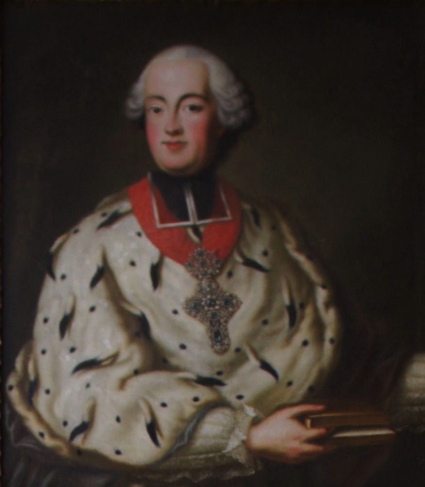 Clemens Wenceslaus of Saxony (1739-1812)